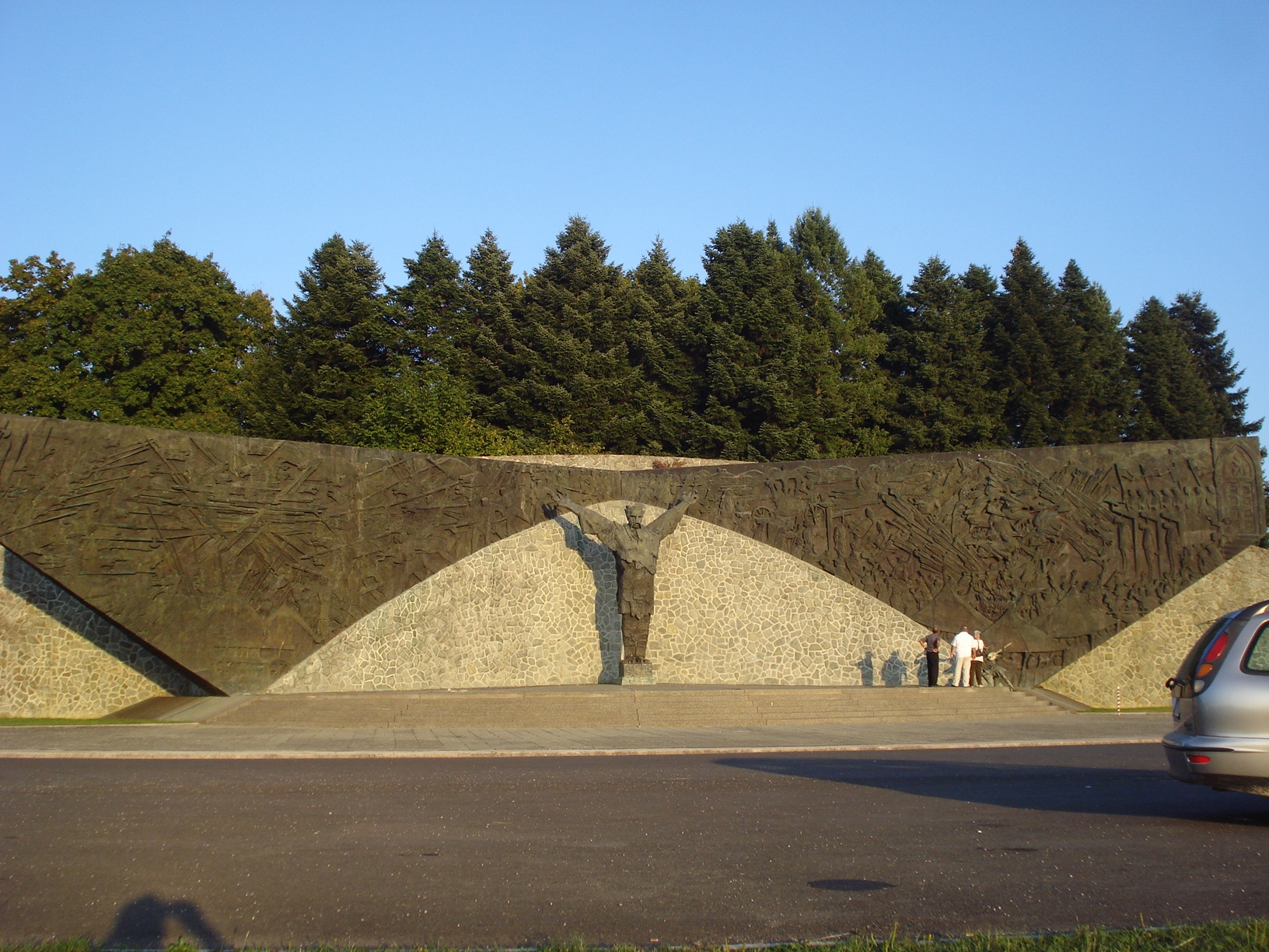 1573 Peasants' Revolt monument in Gornja Stubica, Croatia - work of Antun Augustinčić, a prominent Croatian sculptor